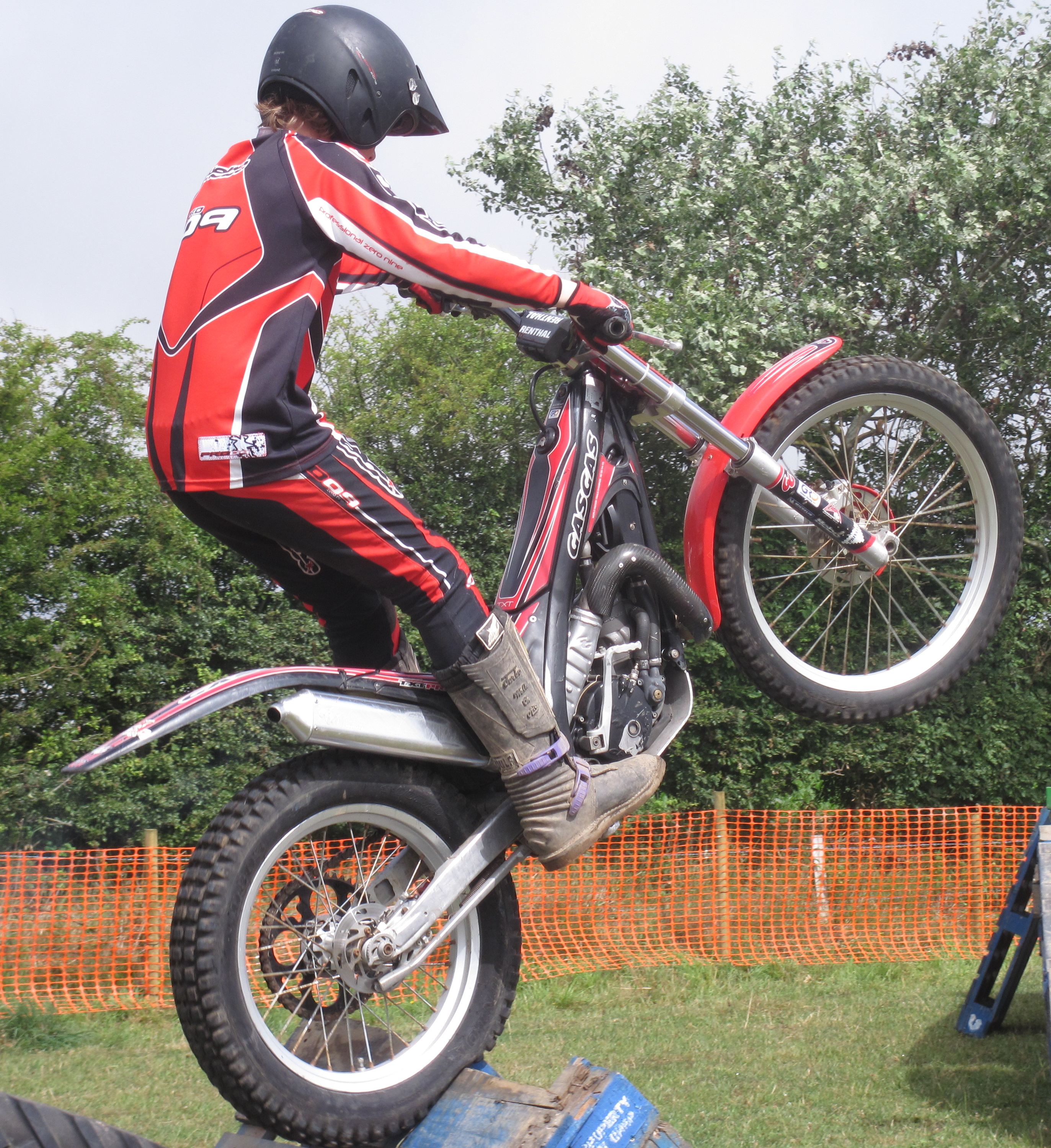 Cycling and motorcycling stunt display at the West Show, Jersey, 10-11 July 2010